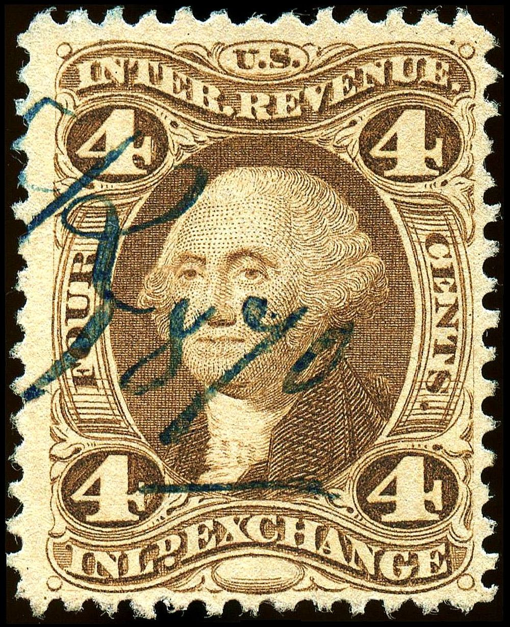 Image of Washington revenue stamp, 4c, Issue of 1862